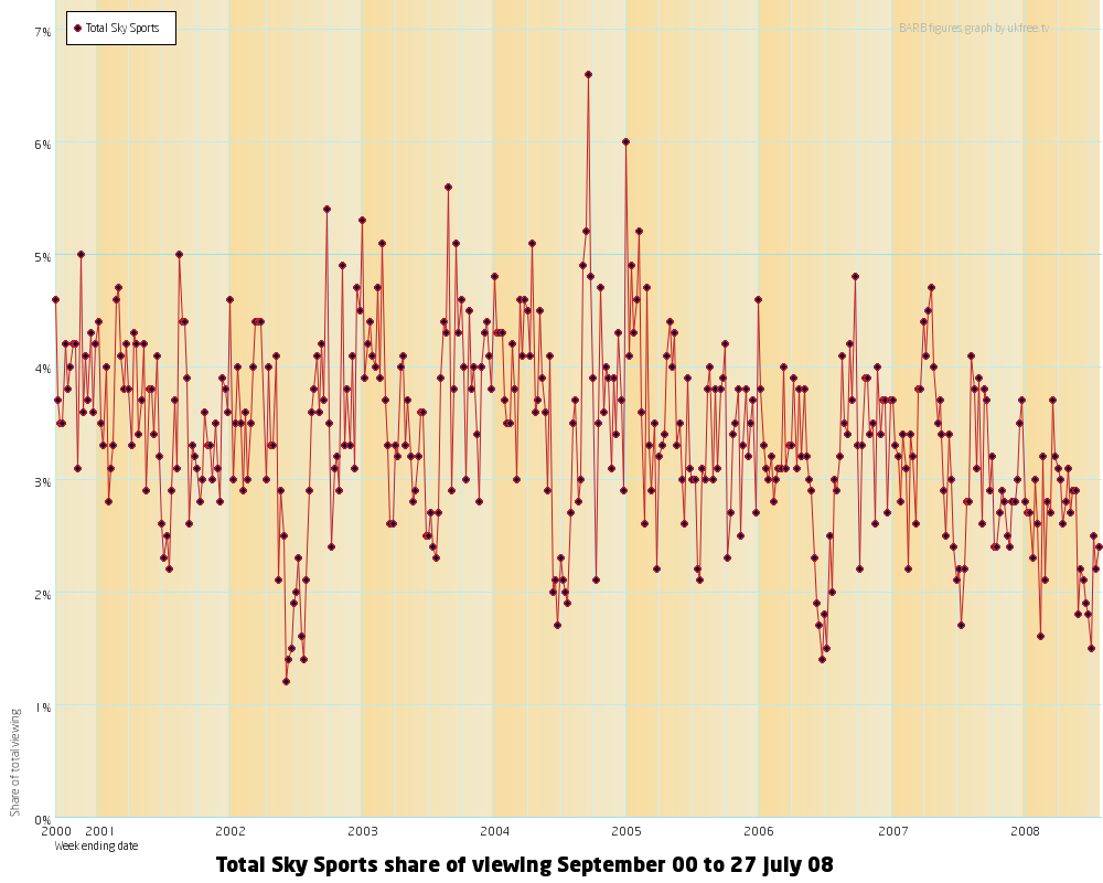 Sky Sports viewing figures